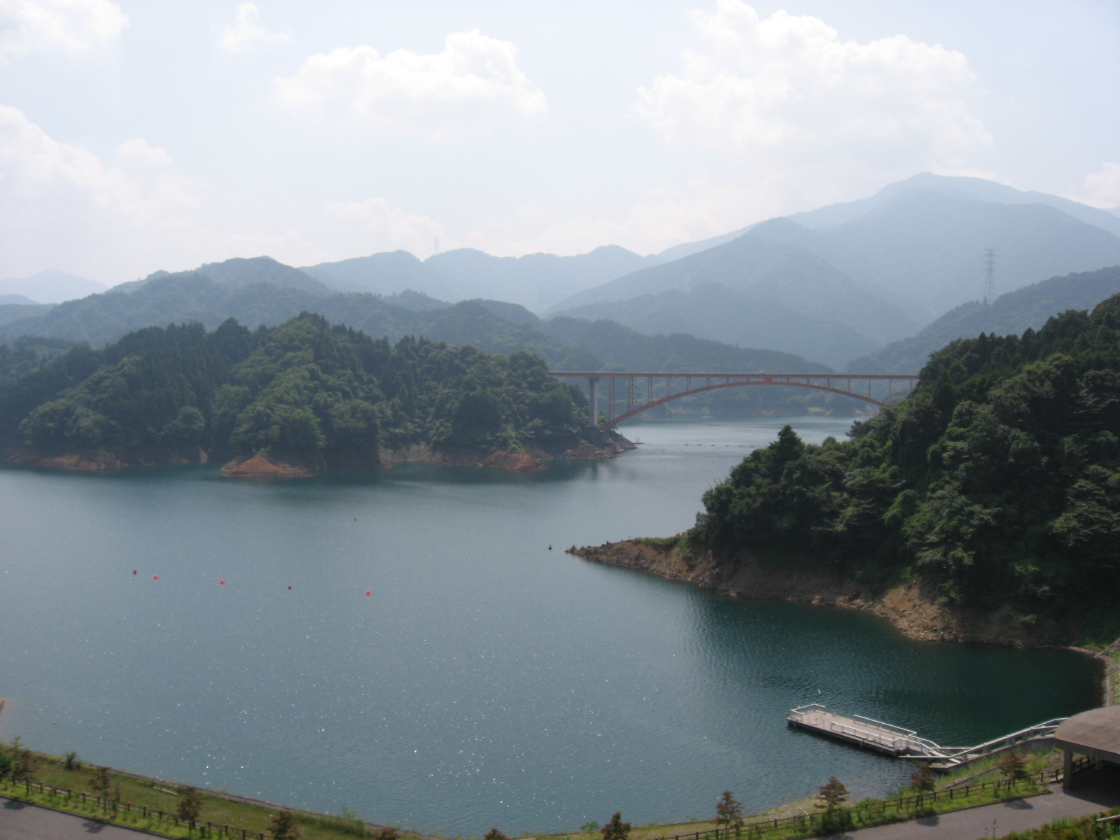 Lake Miyagase as seen from Toriihara-hureaino-ie, Kanagawa, Japan.